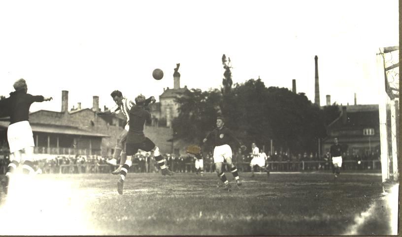 JK Kalev Tallinn vs Meteor Tallinn in 1909